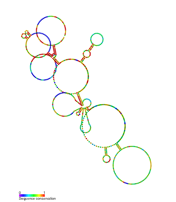 Conserved secondary structure of RUF21